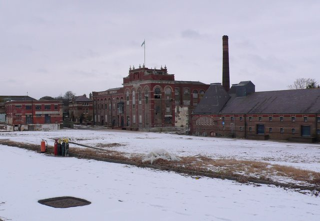 Dorchester Brewery / Brewery Square Over a year since the demolition of the modern parts of the brewery and the snow covered site still sits with no development taking place except on the frontage with Weymouth Avenue where a couple of shops and a doctors surgery are now open.